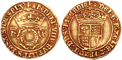 Tudor. Henry VIII of England, with Catherine of Aragon. 1509-1547. AV Crown of the Double Rose (26mm, 3.69 gm, 8h). Second coinage, struck 1526-1529. London mint; mm: rose. hENRIC VIII RVTILANS ROSA SINE SPIA', crowned double rose flanked by crowned H and K (Henry and Katherine of Aragon); saltire stops DEI G' R' AGLIE' Z FRANC' DNS' hIBERNIE, crowned royal coat-of-arms; double saltire stops. Cf. Schneider 582; North 1788; SCBC 2273. Good VF, with wonderful coppery toning. Ex Triton VII (13-14 January 2004), lot 1276.